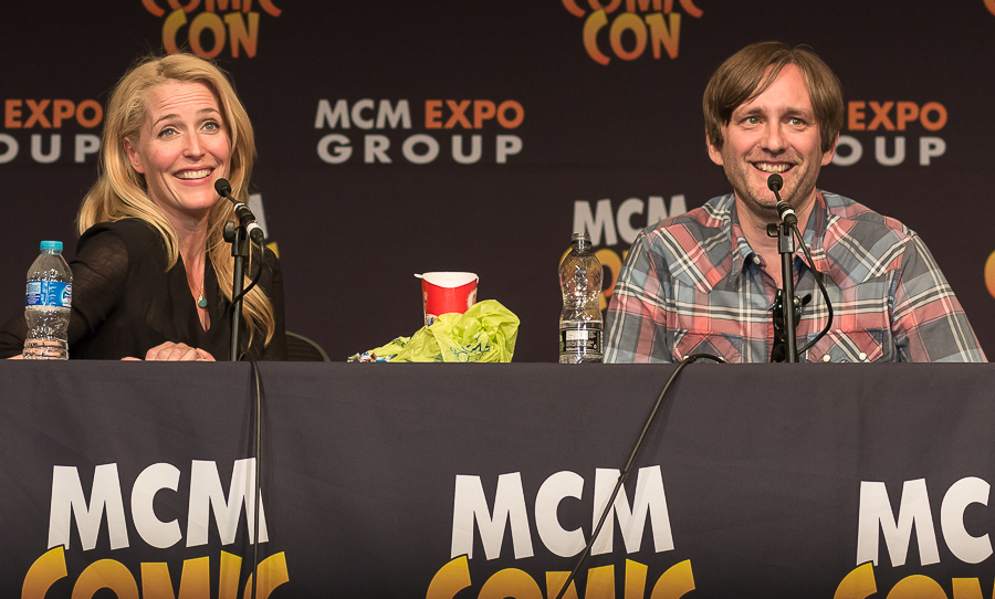 Gillian Anderson & Jon Wright at the MCM London Comic Con Robot Overlords panel